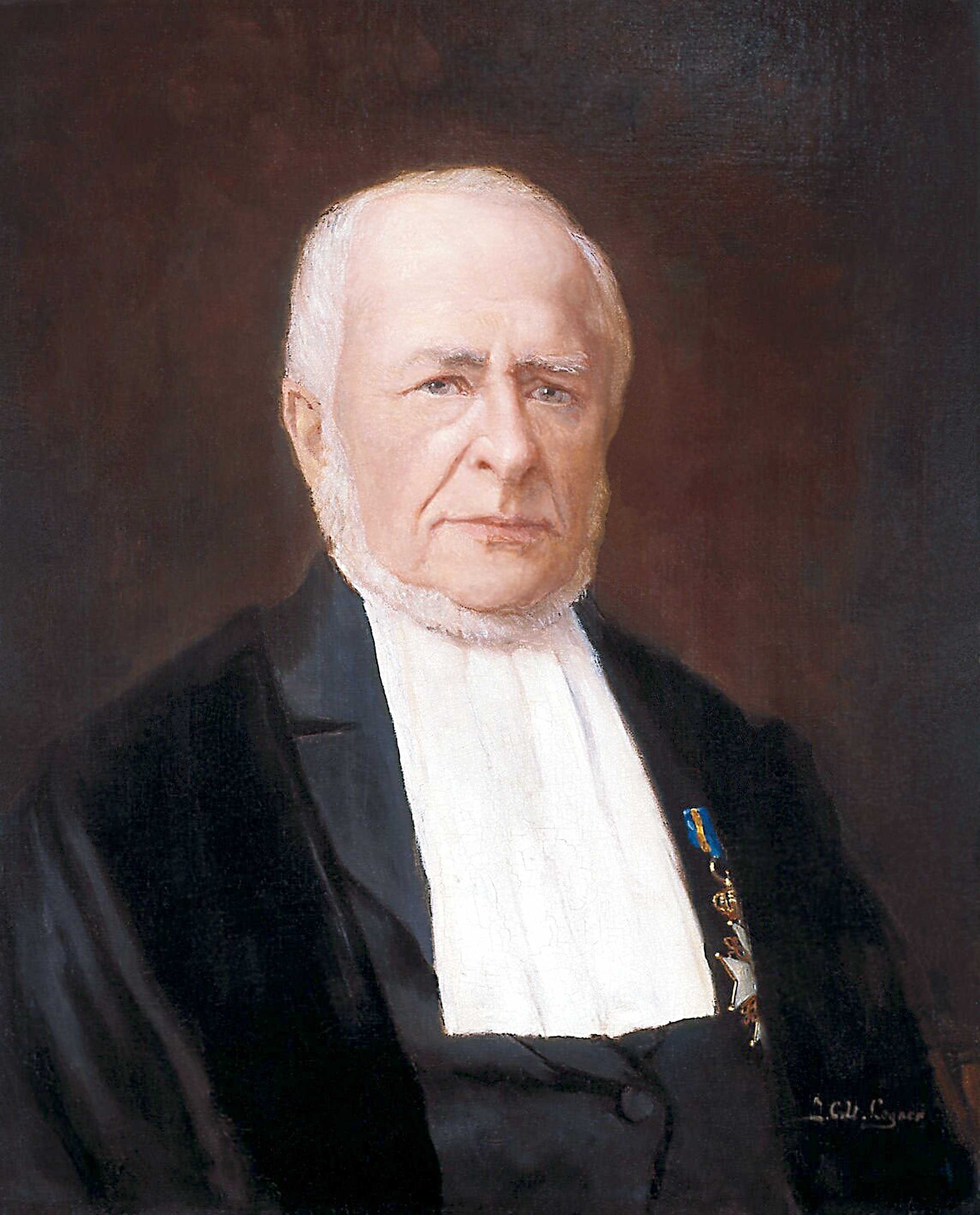 Willem Gerard Brill (1811-1896) Dutch Niederlandist and historian